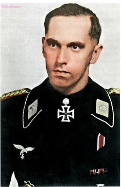 Karl Roßmann (23 novembre 1916 – 1 aprile 2002), Panzer Division "Hermann Göring"'s officer